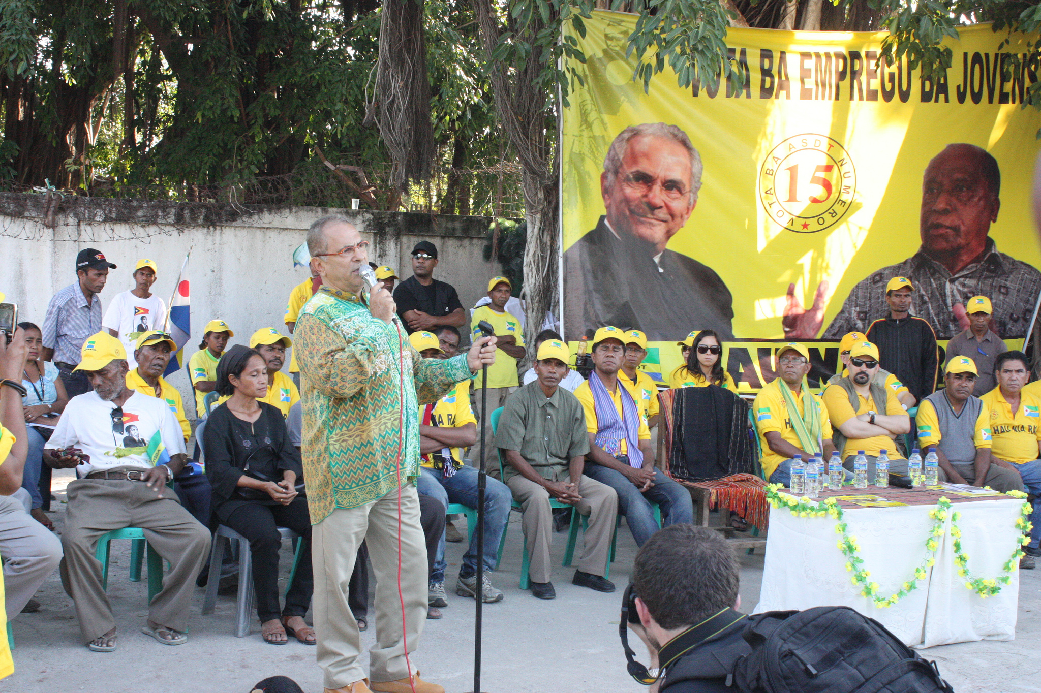 Timor-Leste political campaign: Former president José Ramos-Horta at a campaign of Associação Social-Democrata de Timor ASDT in Dili